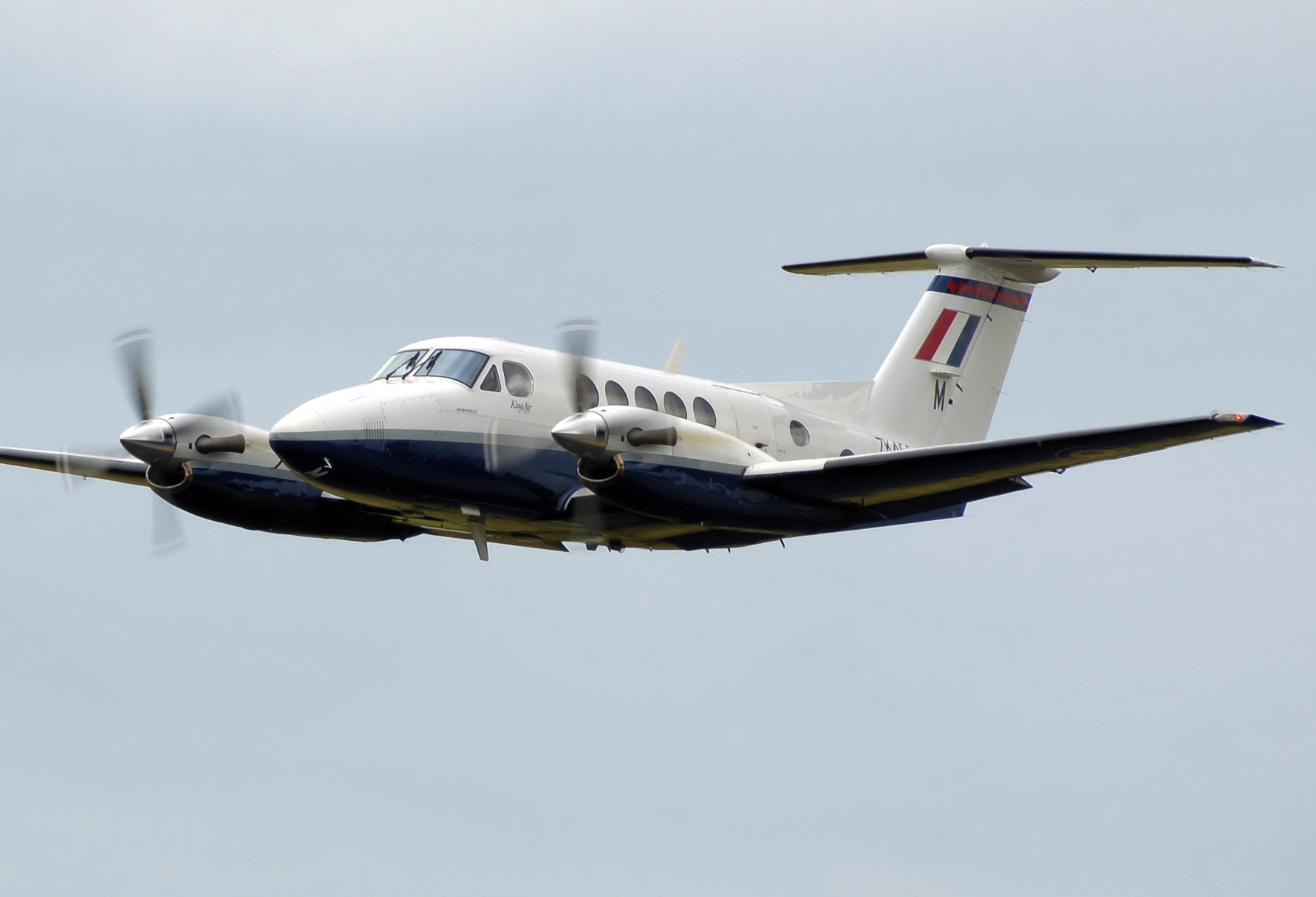 A Beechcraft B200 Super King Air of the RAF (ZK453) takes off from Kemble Air Day 2008, Kemble Airport, Gloucestershire, England. This aircraft was built in 2003.